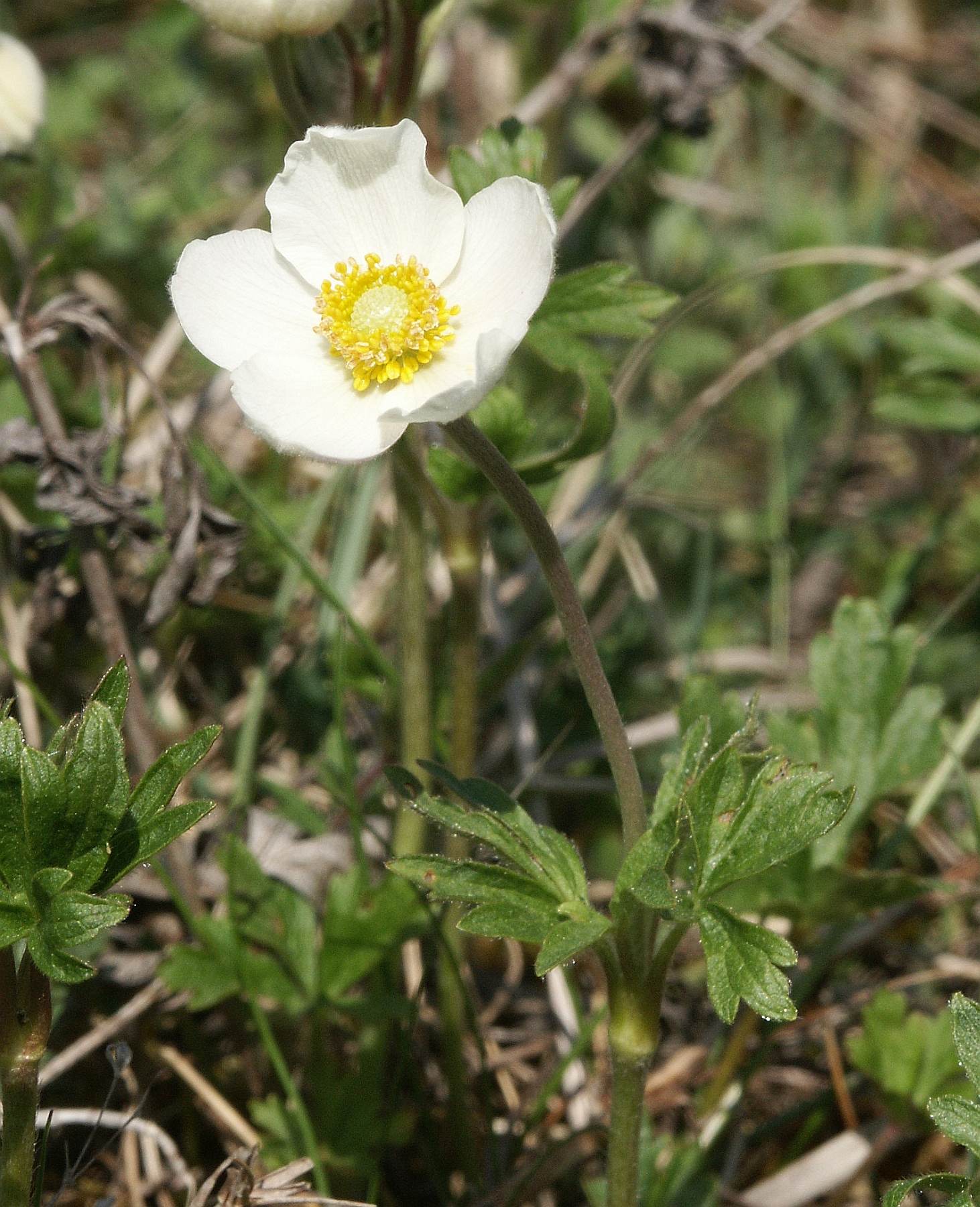 Anemone sylvestris, Taubergrund, Germany